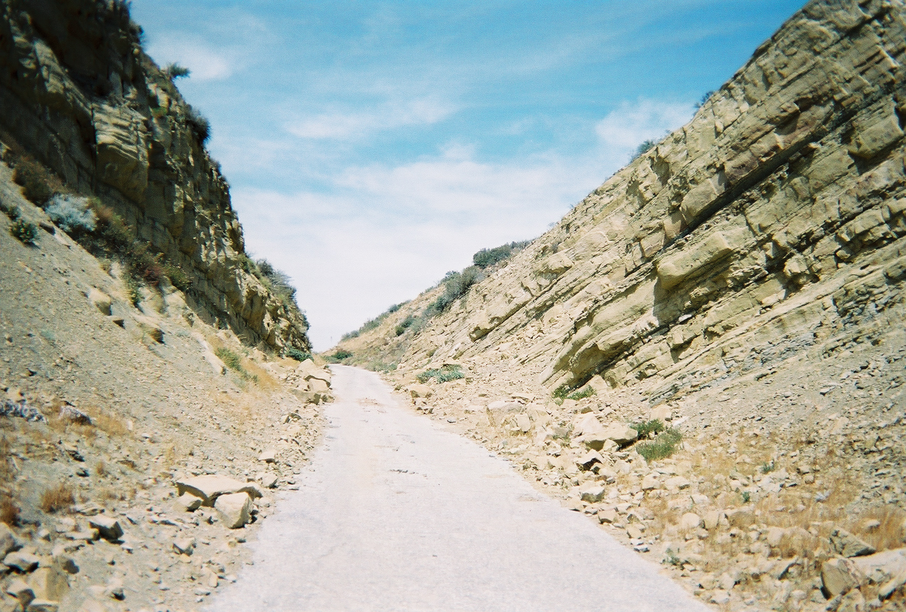 This location on the Ridge Route in California required steam power to make the cut, which was made narrow to save on roadbuilding expenses. Today it is best used as a one lane road, shared with any drivers coming from the opposing direction. The color of the rock - a yellowish hue - may have led to the naming of this cut after a Northern European country's inhabitants. Looking northbound.